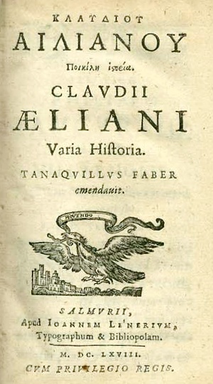 Title page of Varia Historia by Claudius Aelianus, from the 1668 edition edited by Tanaquil Faber